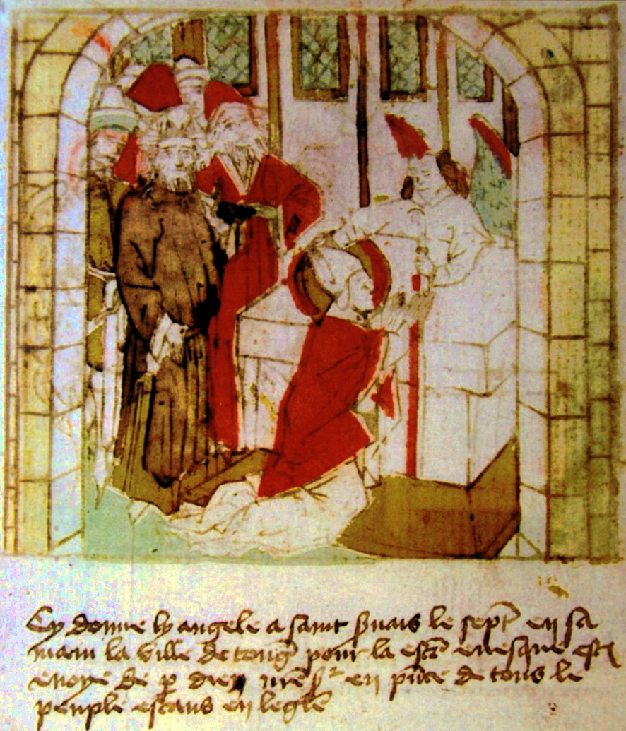 Scene from the life of Saint Servatius according to legend. Here: Servatius receives the crosier and mitre from an angel in the city of Tongeren. Drawing with text in French in a manuscript of ±1460 of the so-called Blokboek van Sint Servaas (Brussels, Royal Library)